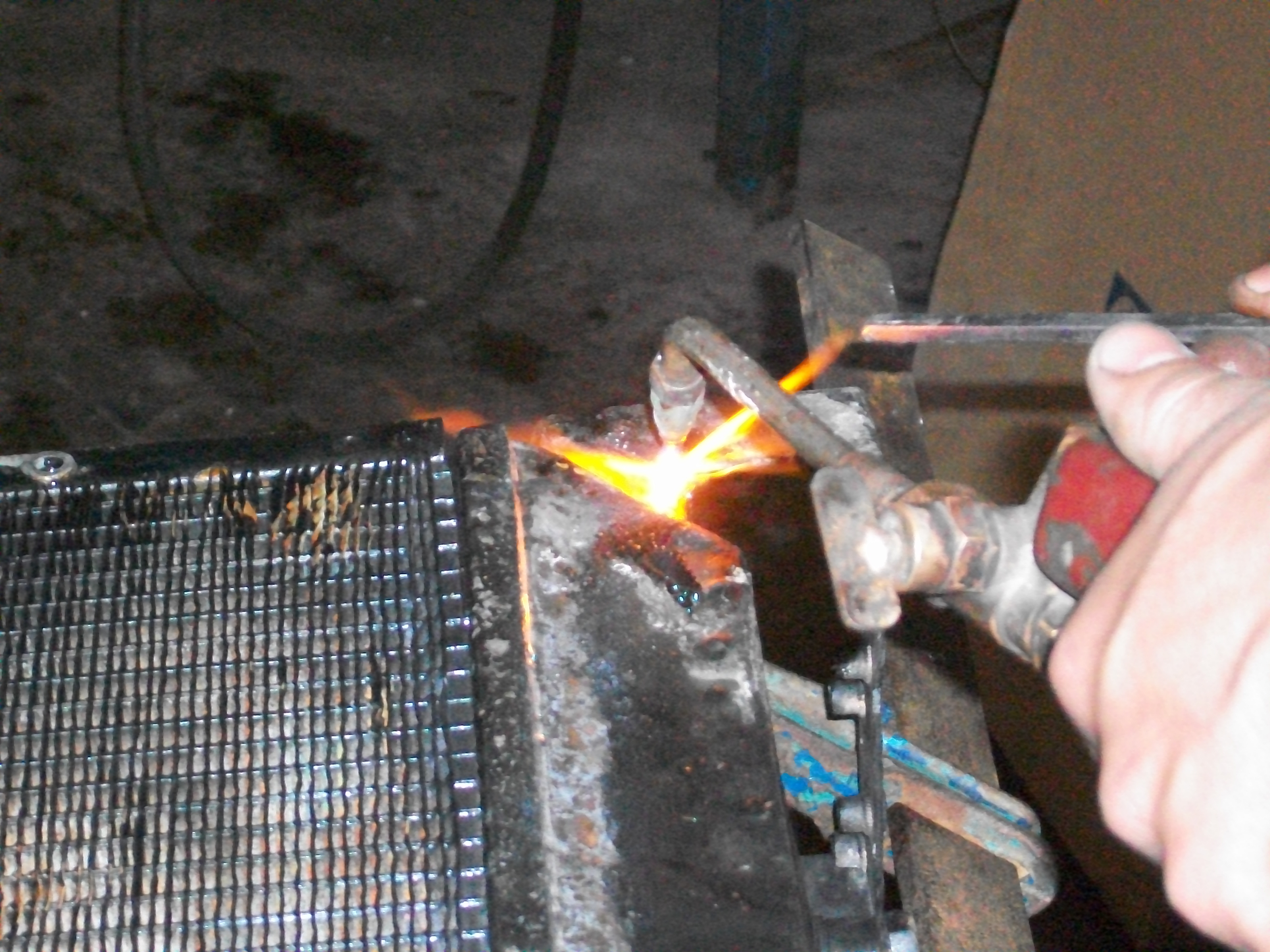 Imagen del proceso de soldado mediante la autogena